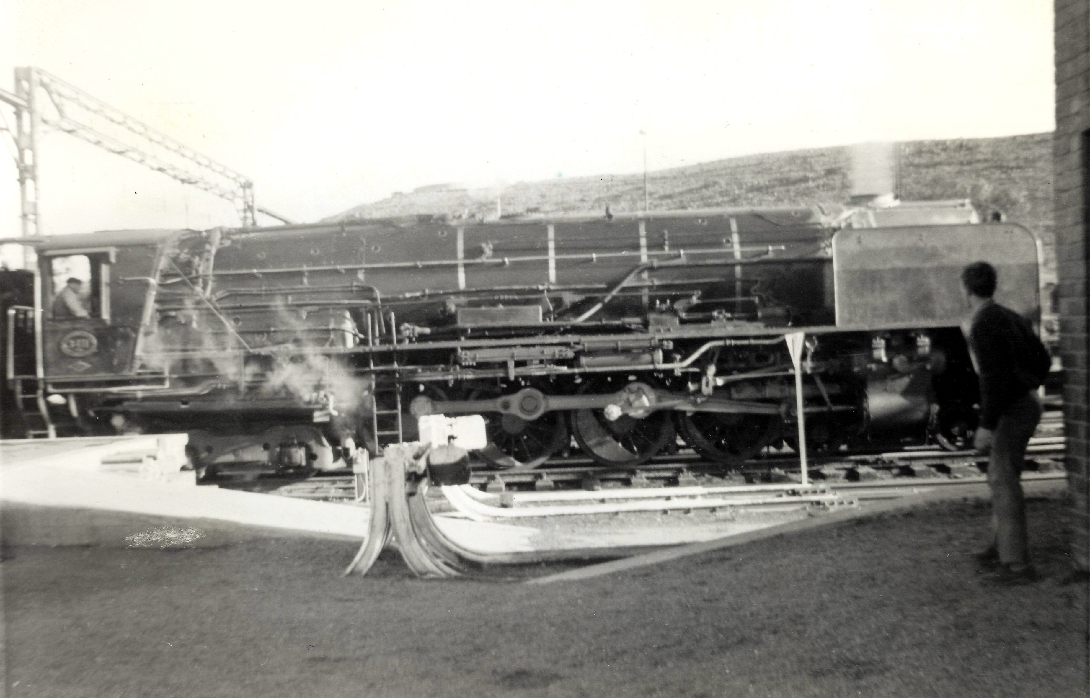 SAR Class 25NC 3411 (4-8-4) Builder's Number: NBL 27311 Type: Non condensing Location: Beaufort West, Cape Province